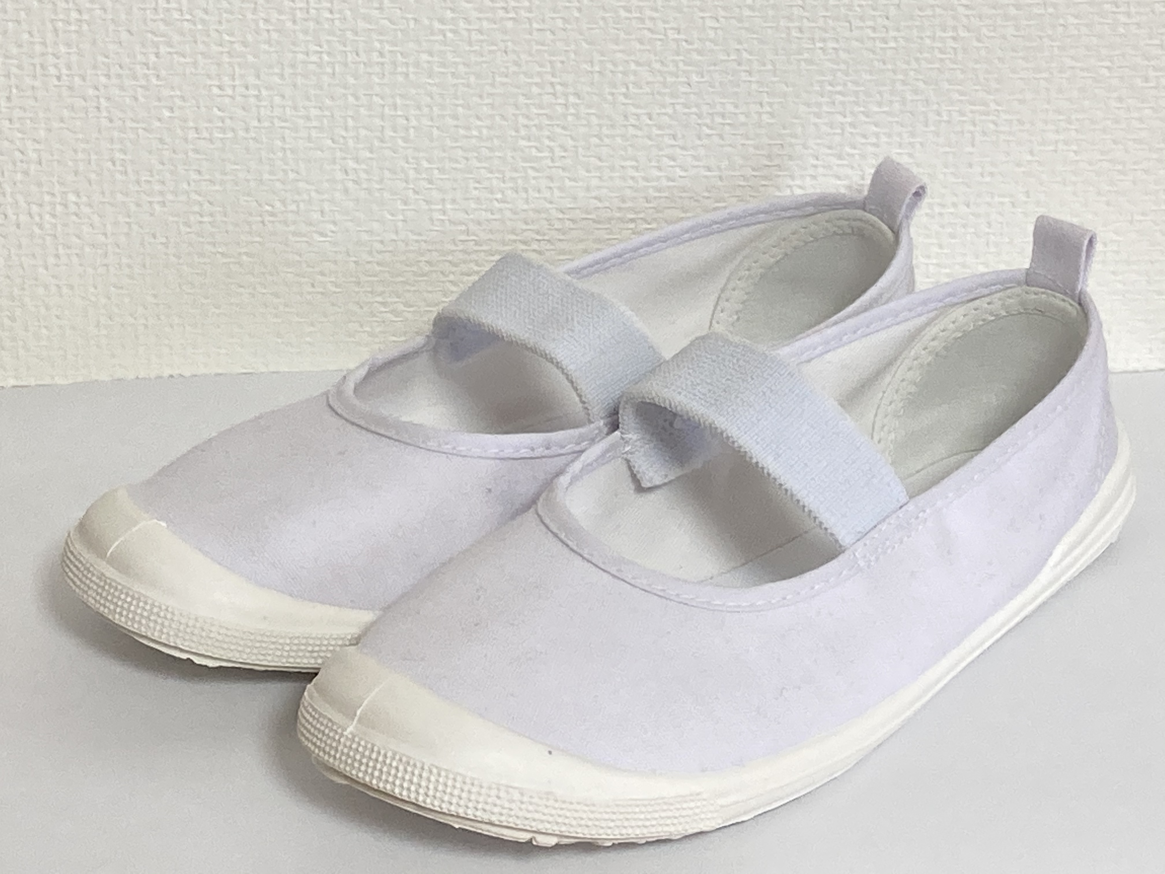 Komaryo School shoes Cariot white-white